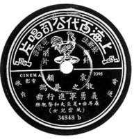 Picture of the single March of the Volunteers, released by Pathe Records in 1935. The image is reduced in resolution.